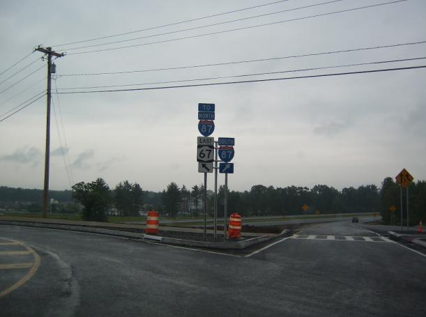 Signs for the NY 67 in Malta interchange construction with Exit 12 of the Northway.